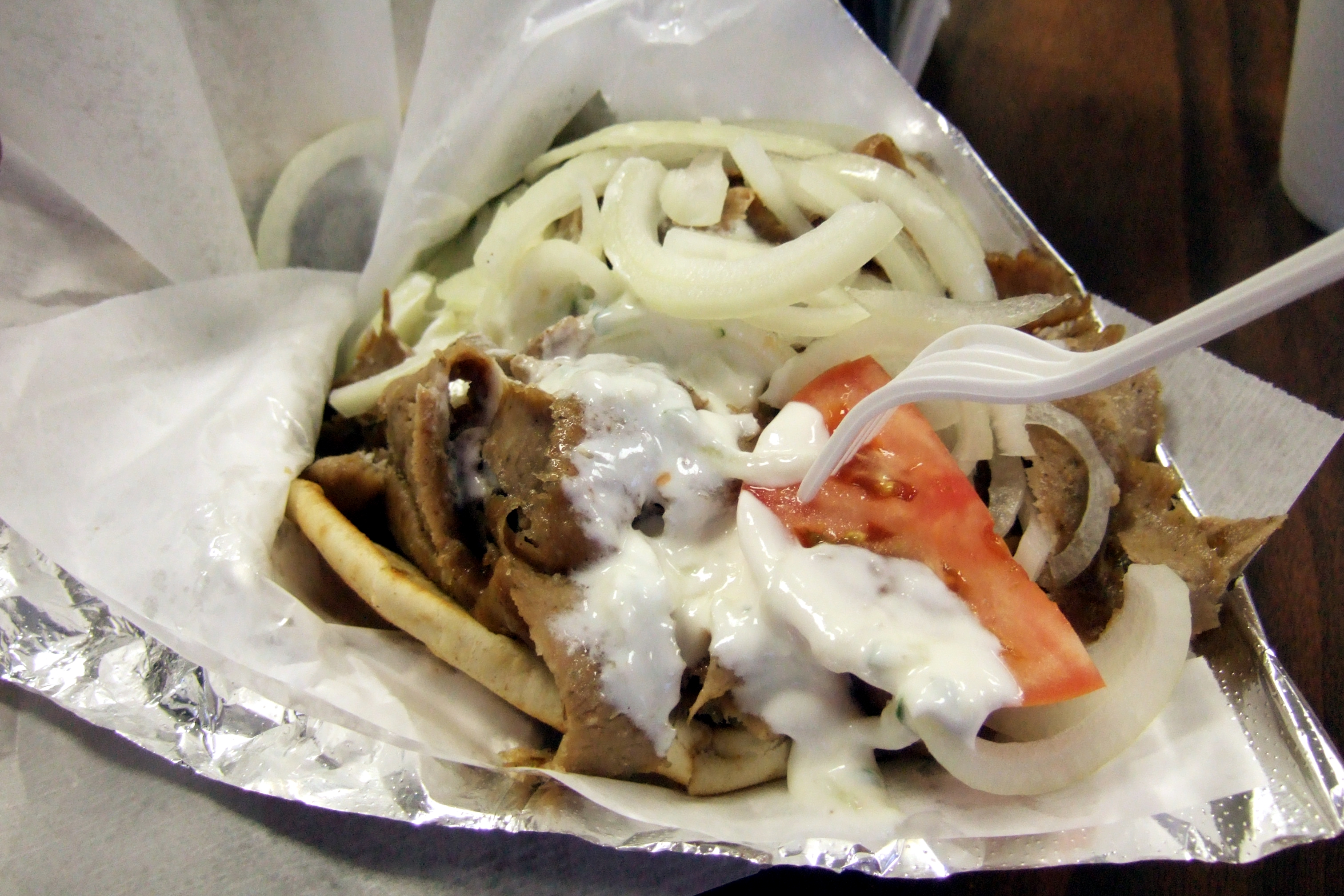 A gyro sandwich with meat, onions, tomato, and tzatziki sauce in a pita as served at The Greek House in Norman, Oklahoma, USA.